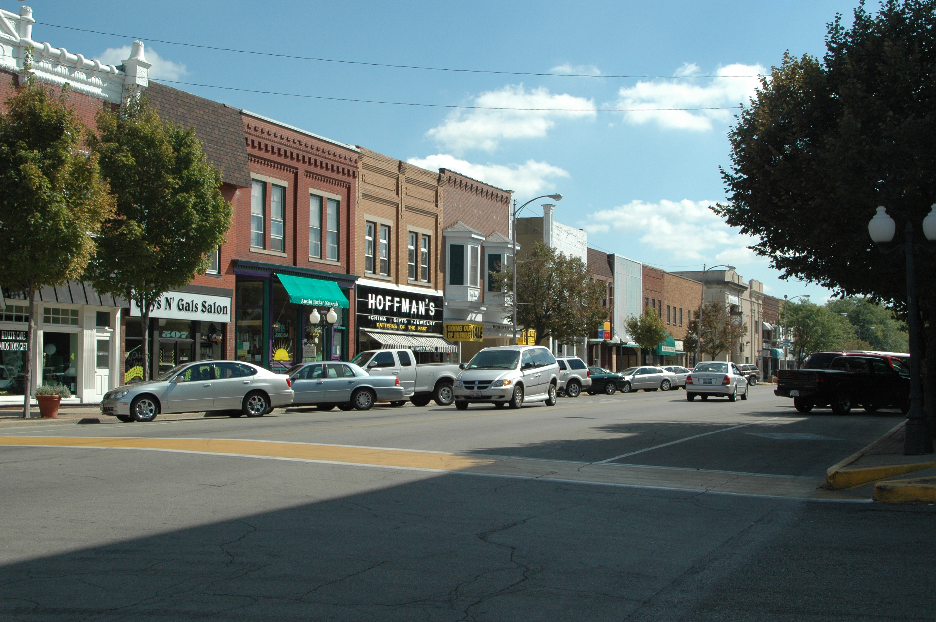 View of the south historic Main Street district in Princeton, Illinois (source: personal photo) Category:Images of Princeton, Illinois